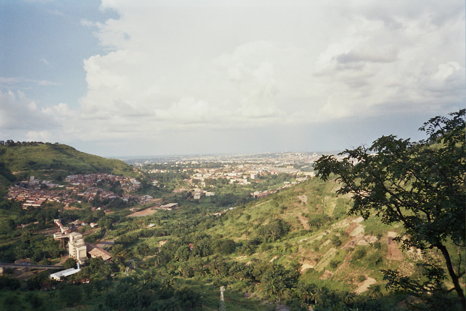 The picture of the city Enugu from the hills on the west side of the city. Igbo: Onyonyo ama-ukwu Enugwu, shí ugwu nor na odida anyanwu ya.